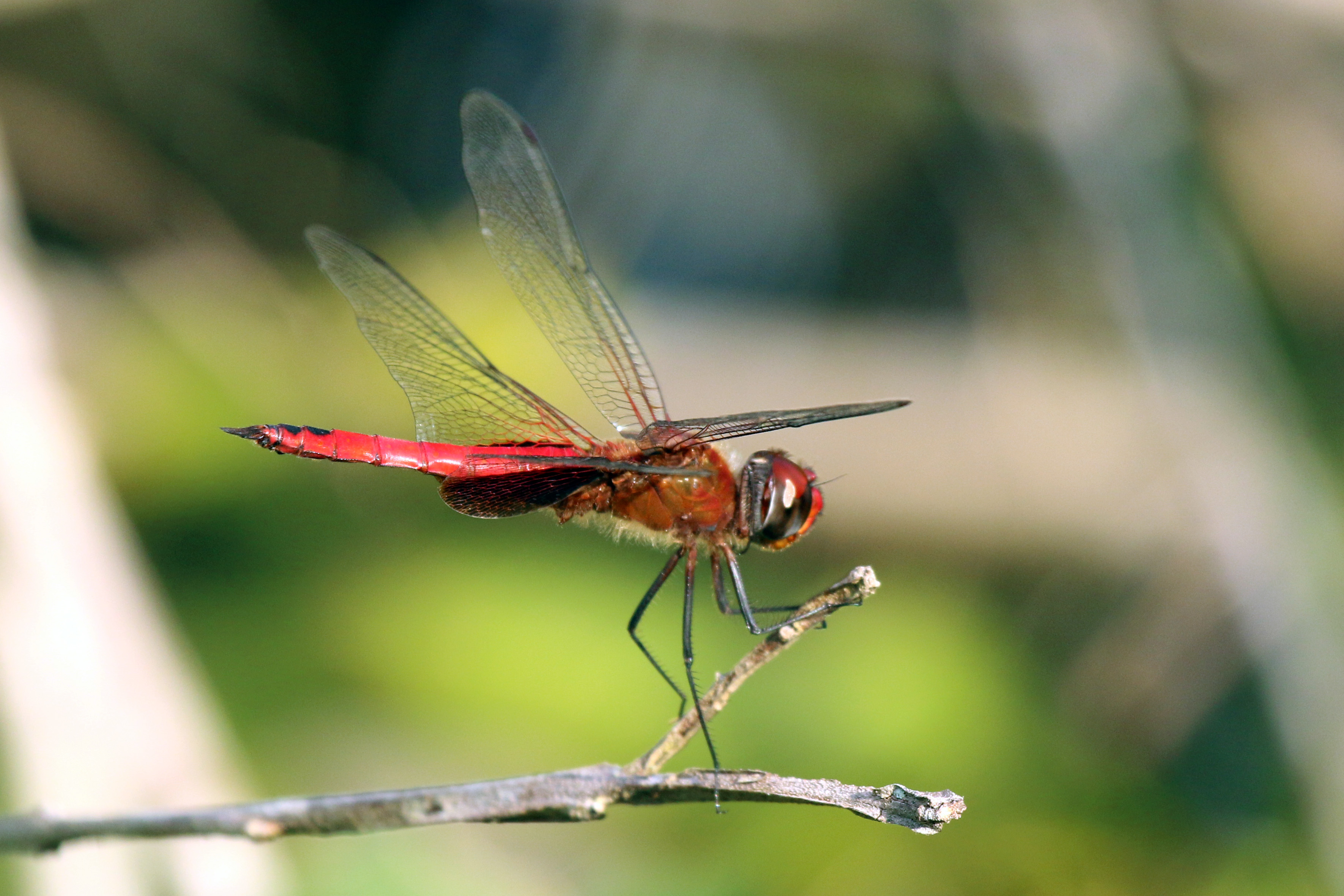 Red-tailed pennant dragonfly (Brachymesia furcata) male, Jamaica